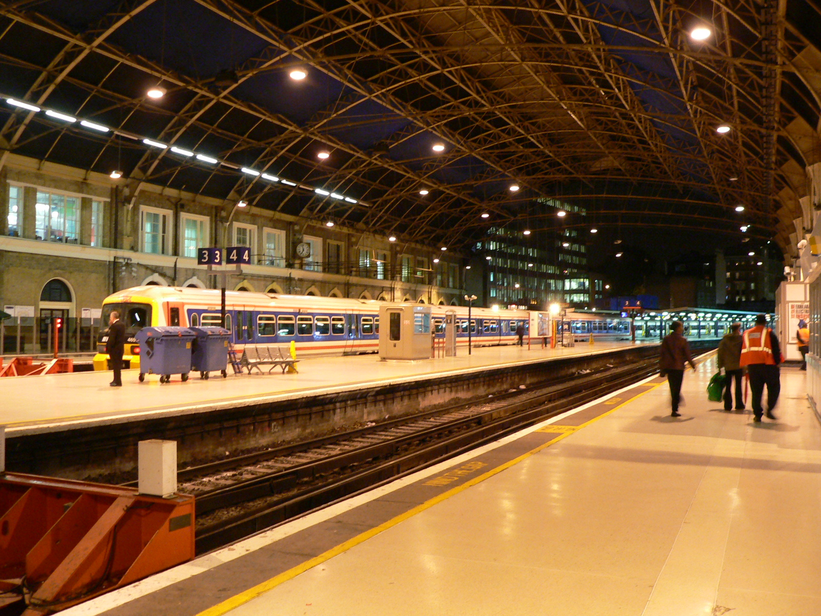 Platforms 3, 4 and 5 at London Victoria station on 24 October 2005. The train visible in the picture is a South Eastern Trains Class 465 emu in Network South East livery.